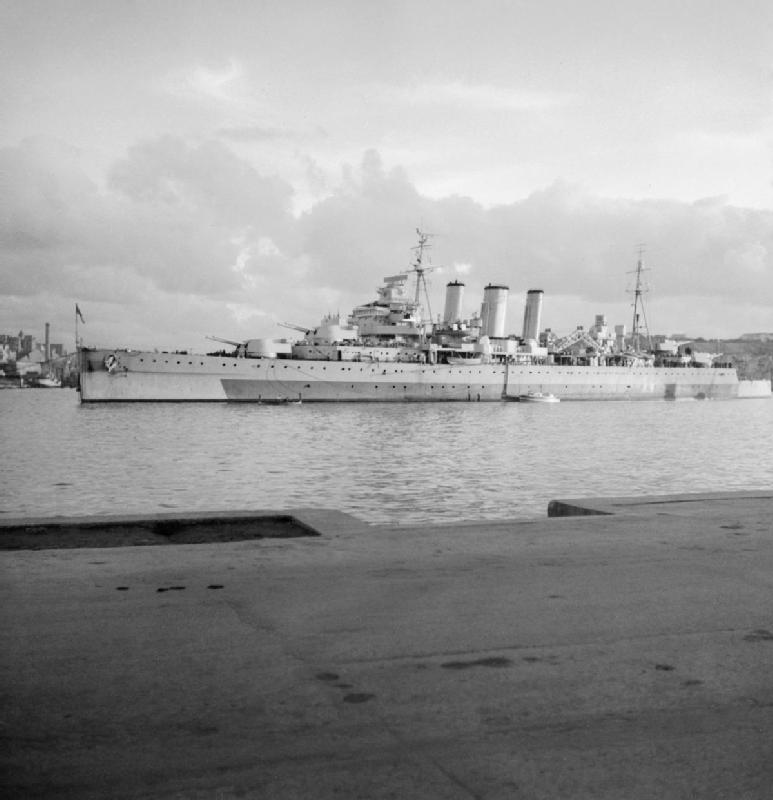 British heavy cruiser HMS CUMBERLAND in Grand Harbour, Malta